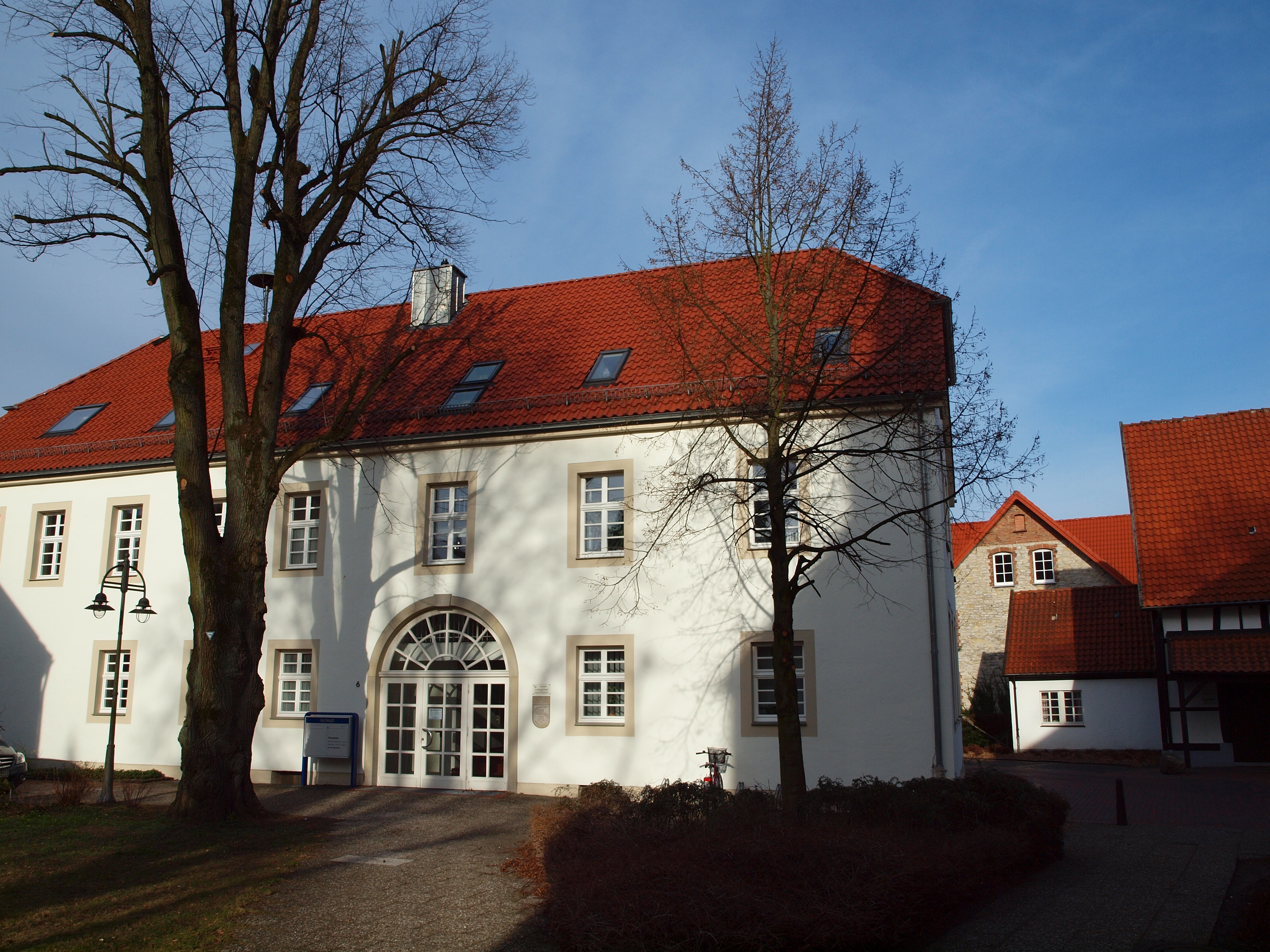 Town house Schlangen